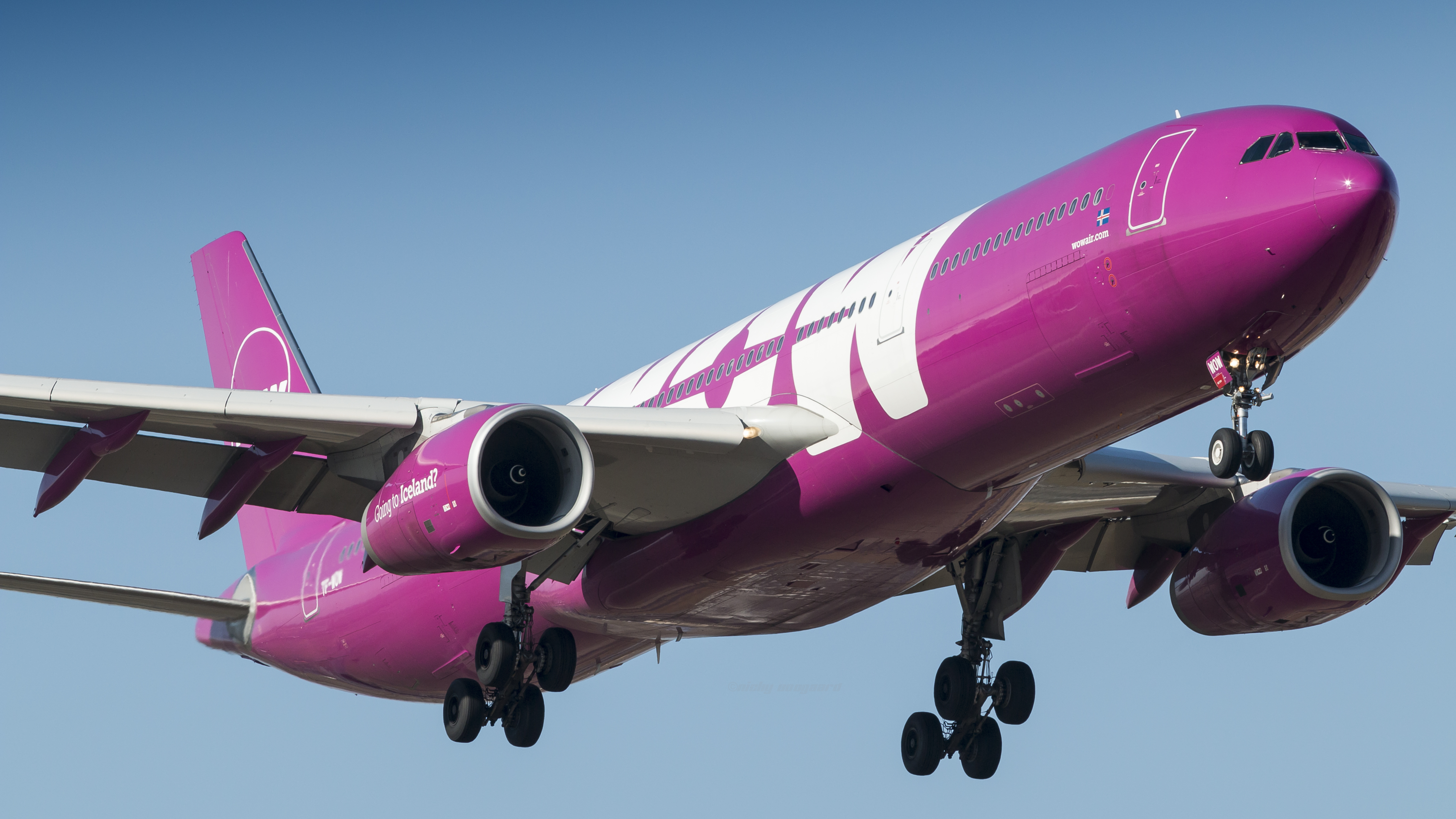 Schiphol, the Netherlands